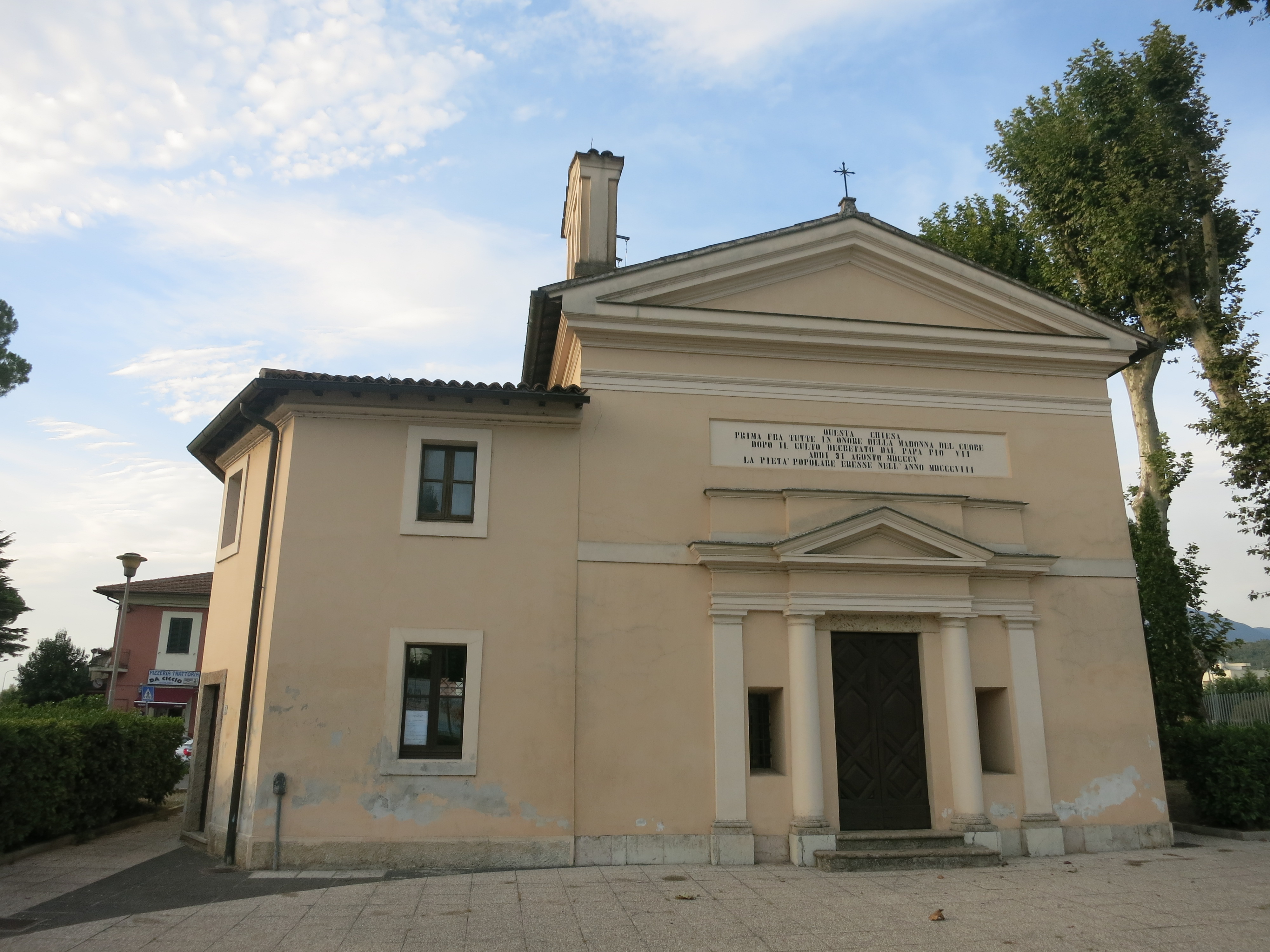 Exterior of Madonna del Cuore church - Rieti, central Italy